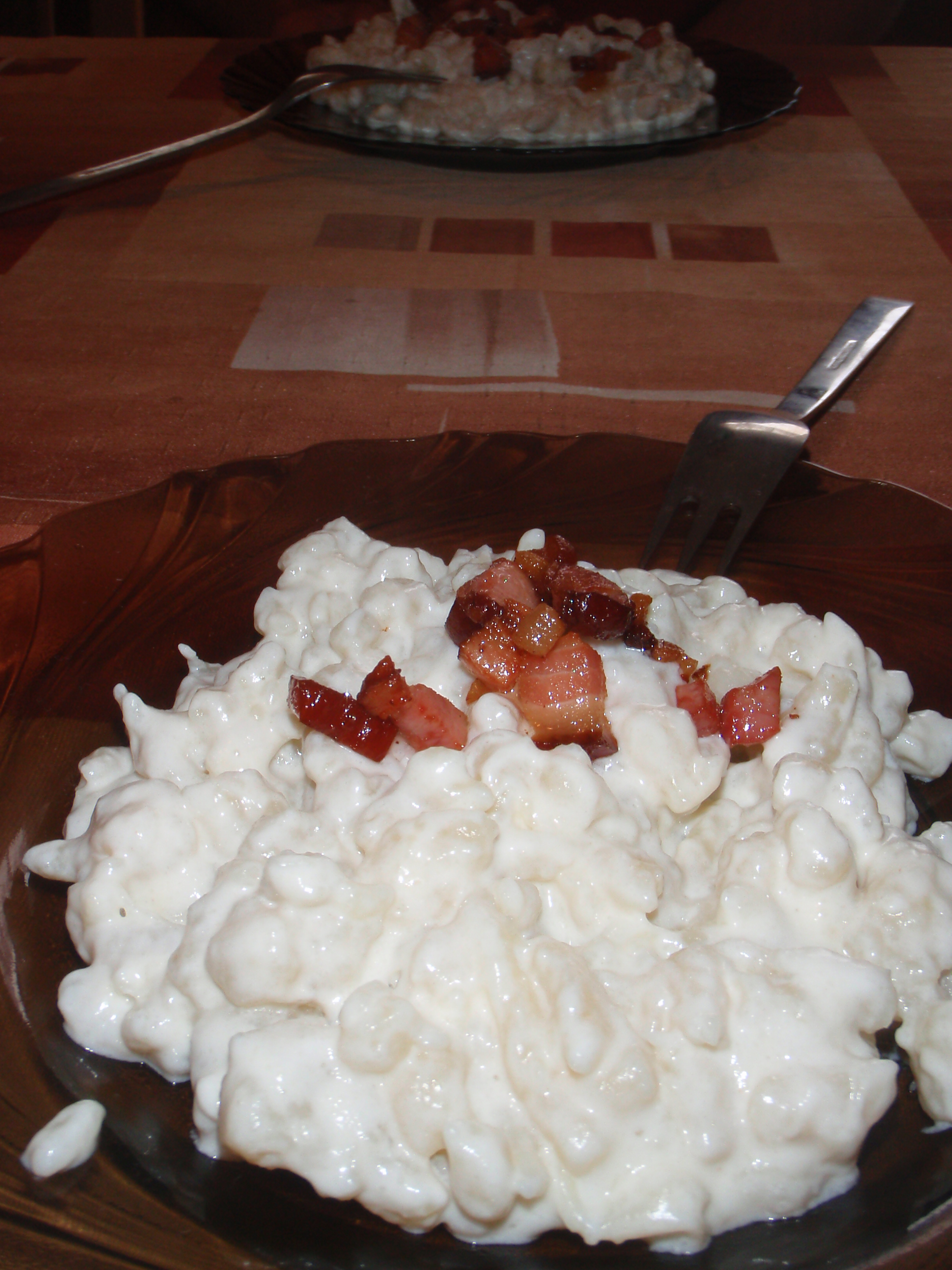 Photograph of a prepared meal of Bryndzové Halušky, the National Dish of the Slovak Republic.